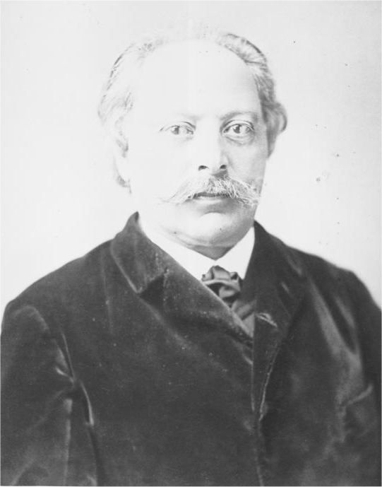 Karl Goldmark, hungarian composer, musical educator and violinist